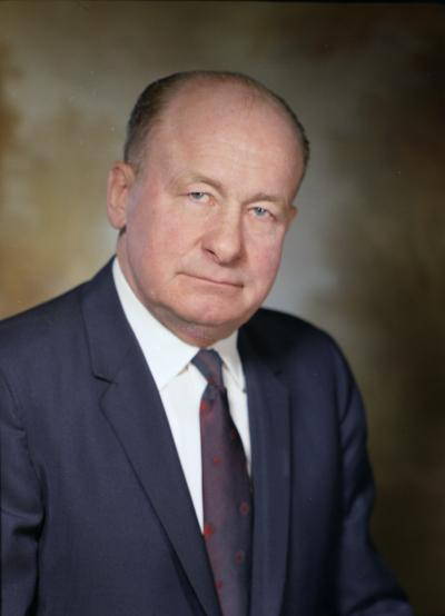 Senator Perry B. Woodall, 1967